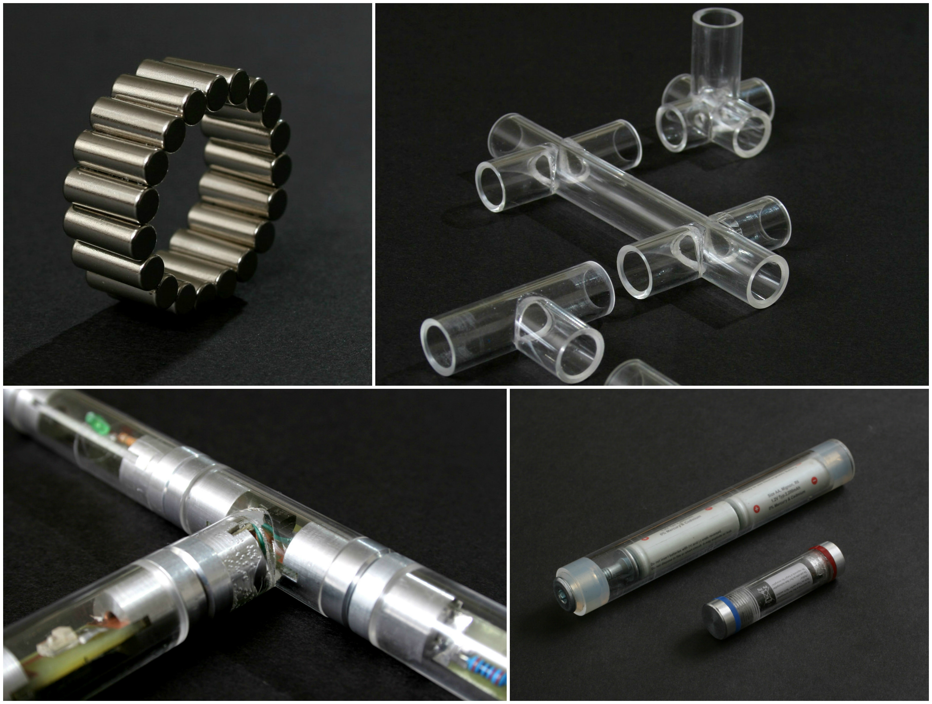 ElexPipe elements